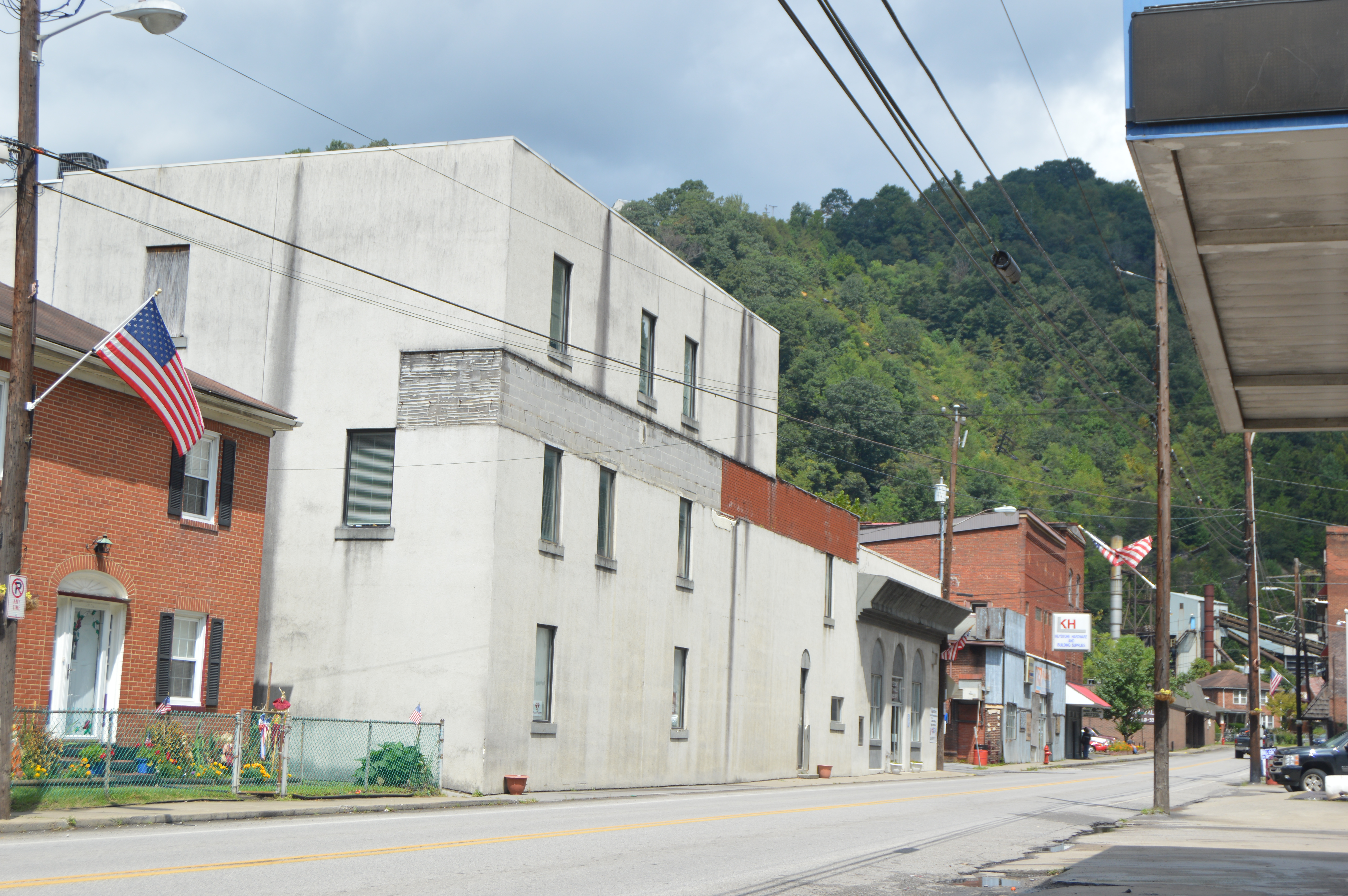 Buildings along U.S. Route 52 in southwestern Keystone, West Virginia, United States.